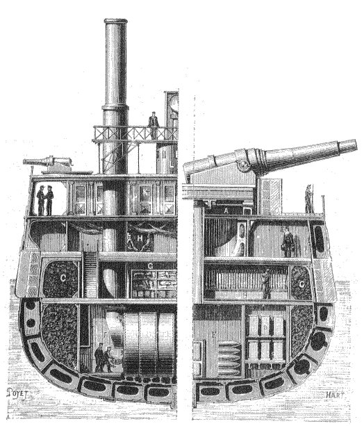 French armoured coast-guard Indomptable